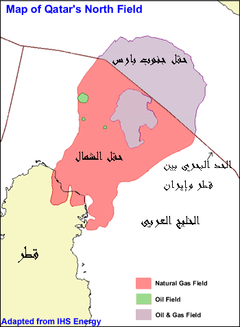 Arabic translation for the map